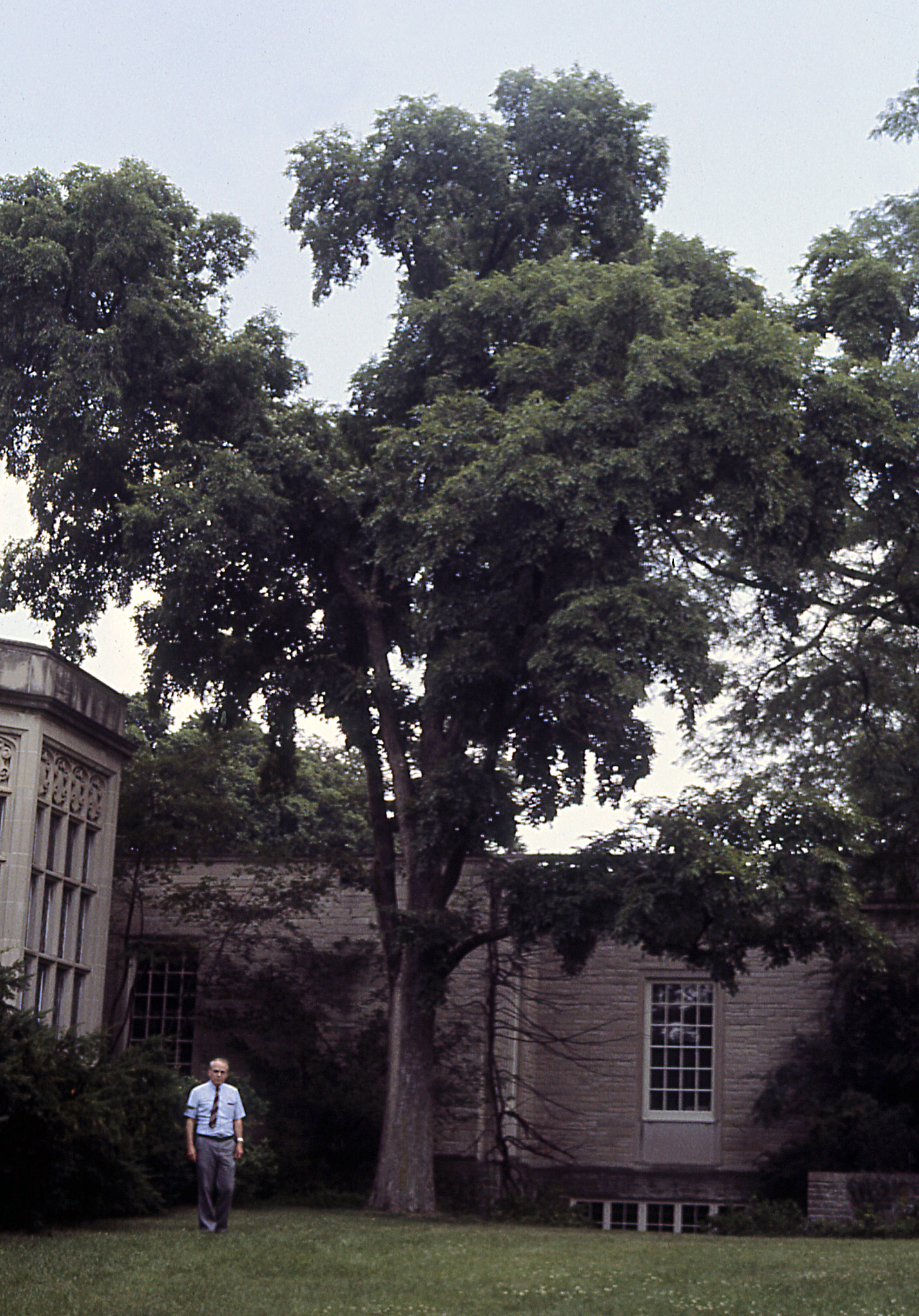 Ulmus 'Accolade', Chicago - Morton arboretum 1987.07.02 (photo: Mihailo Grbić)